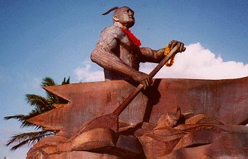 Bronze statue of Chief Gadao, Inarajan, Guam. Personnel Support Activity Detachment, Guam GILS Registration #005124 (PSA Pacific) Maintained by: PSD Guam Webmaster Approved for Release by: OIC PSD Guam Category:Images of Guam